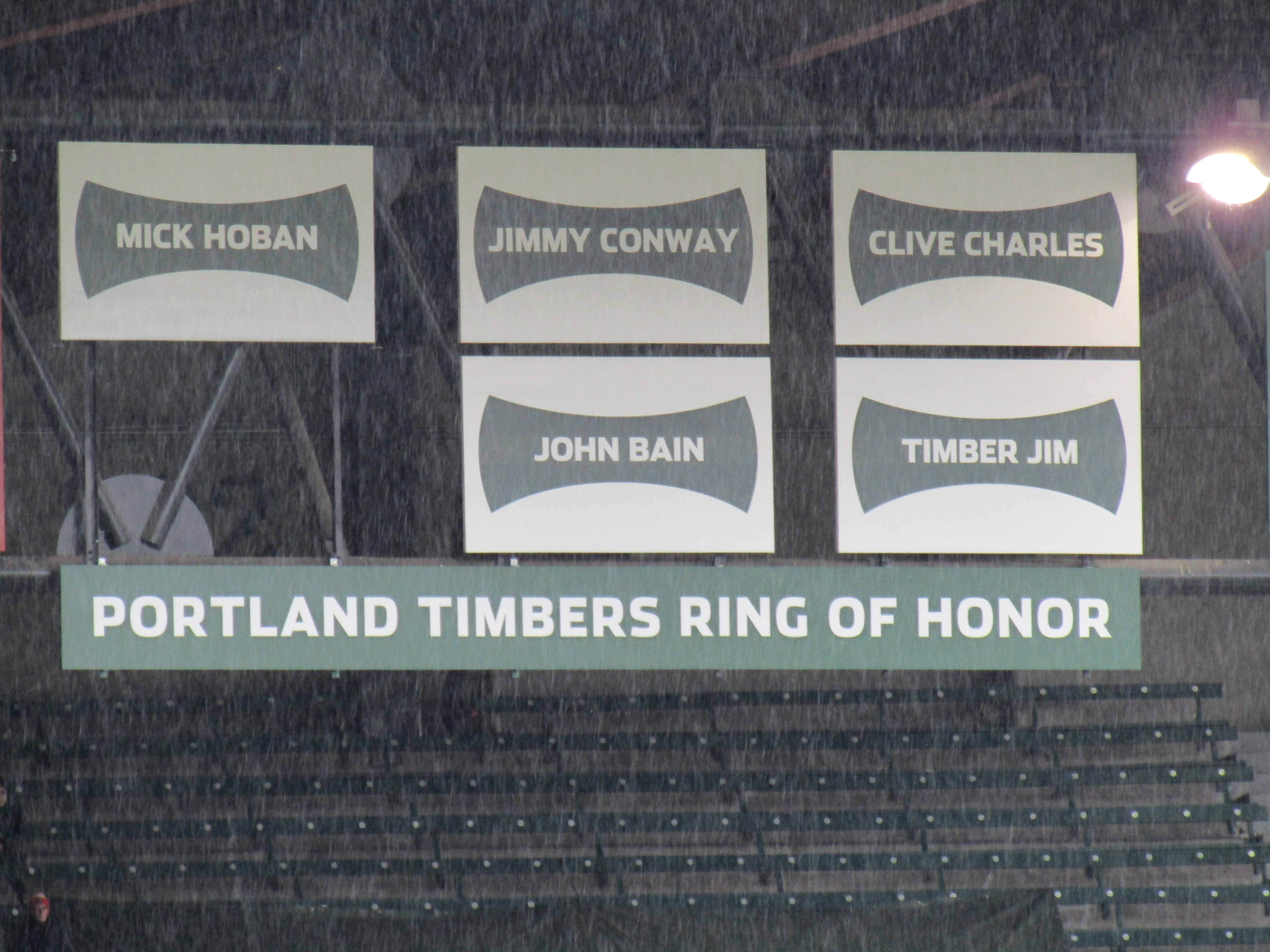 Orlando Pride at Portland Thorns FC, 15 April 2018, Providence Park